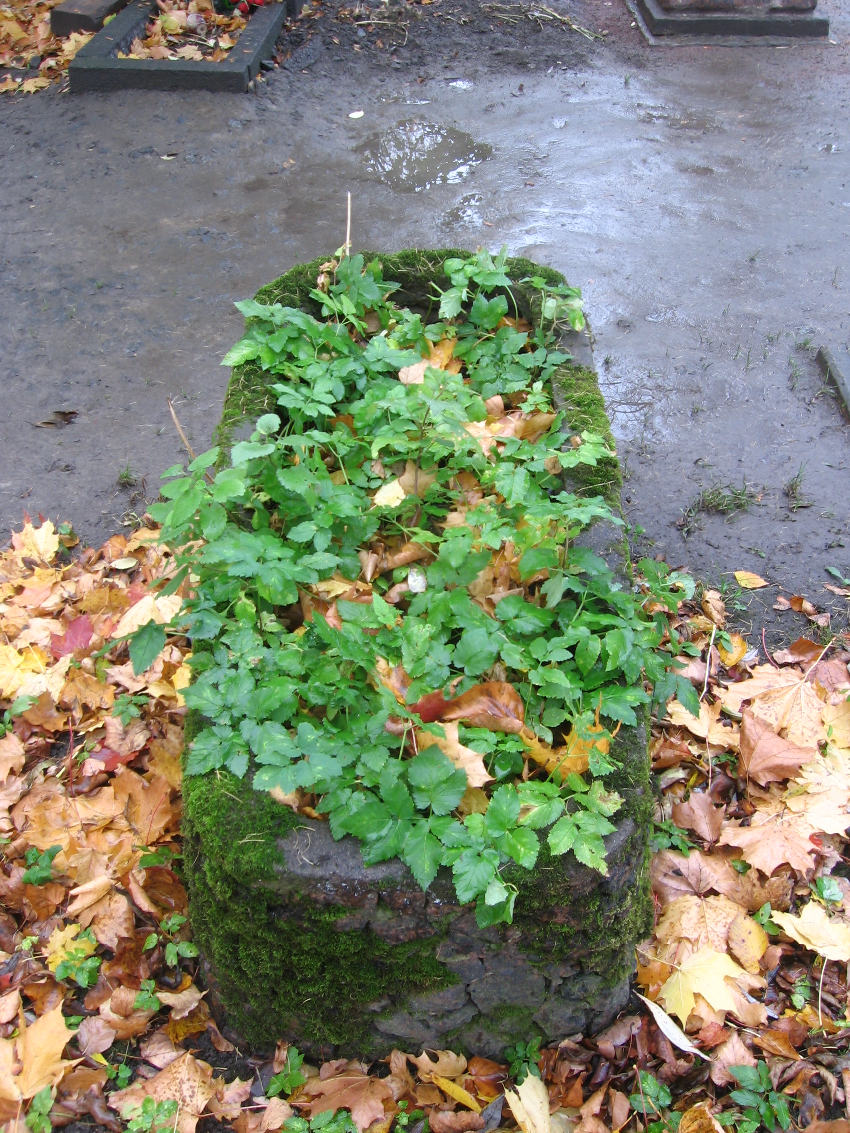 Grave of Ignatius Potapenko